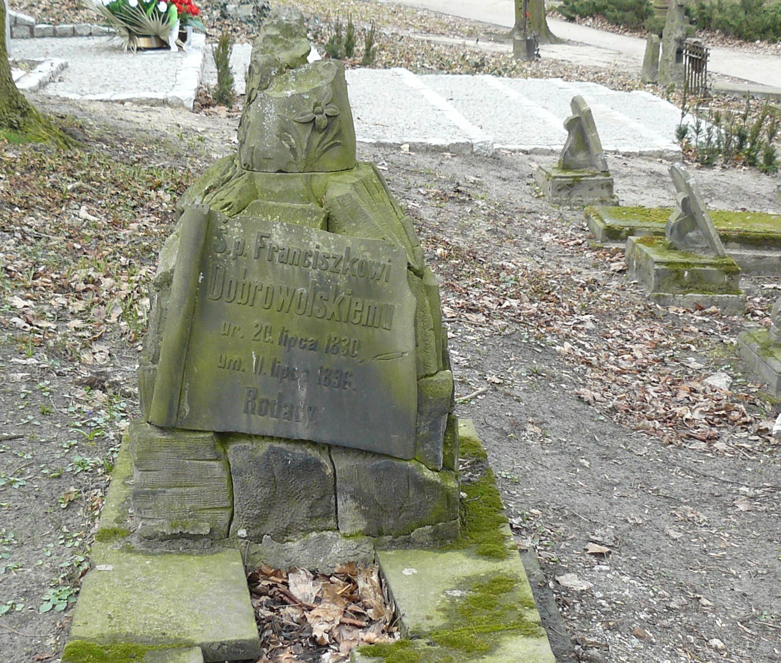 Franciszek Dobrowolski Tomb, Poznan.